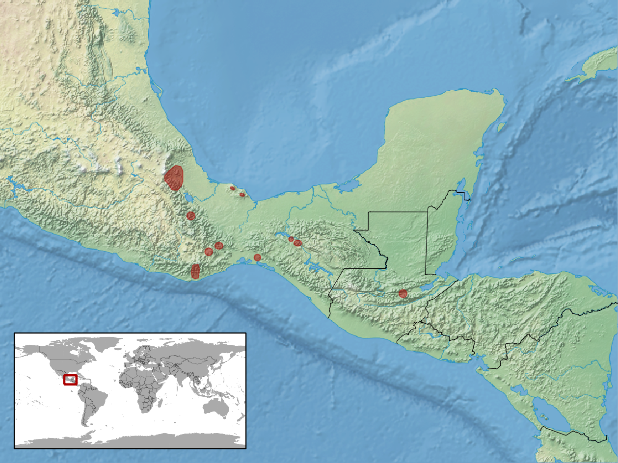 geographic distribution of Xenosaurus grandis (Native: Guatemala; Mexico)